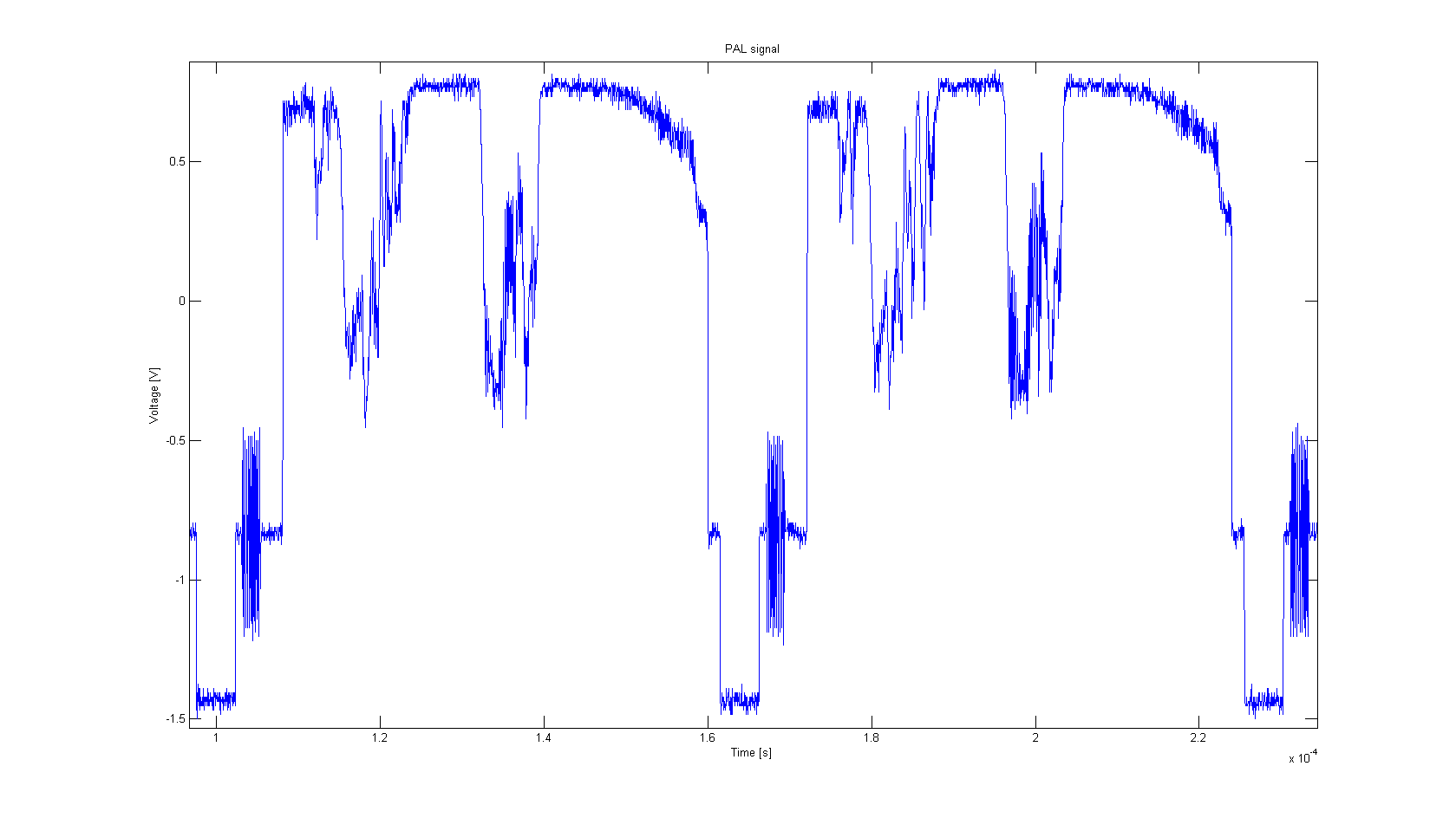 Oscilogram of PAL signal - 2 lines.